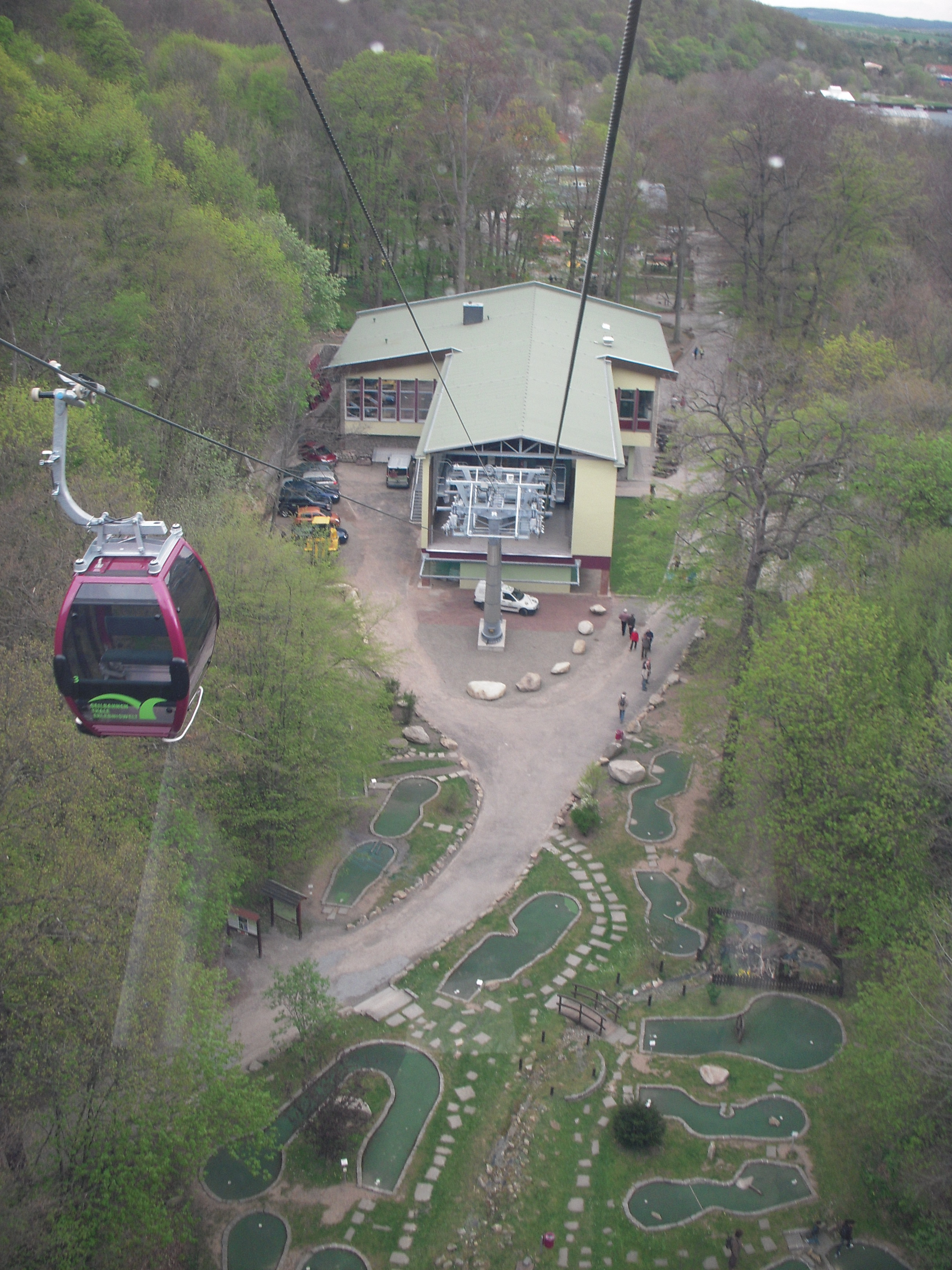 The lower station as seen from a cab. April 26, 2012.